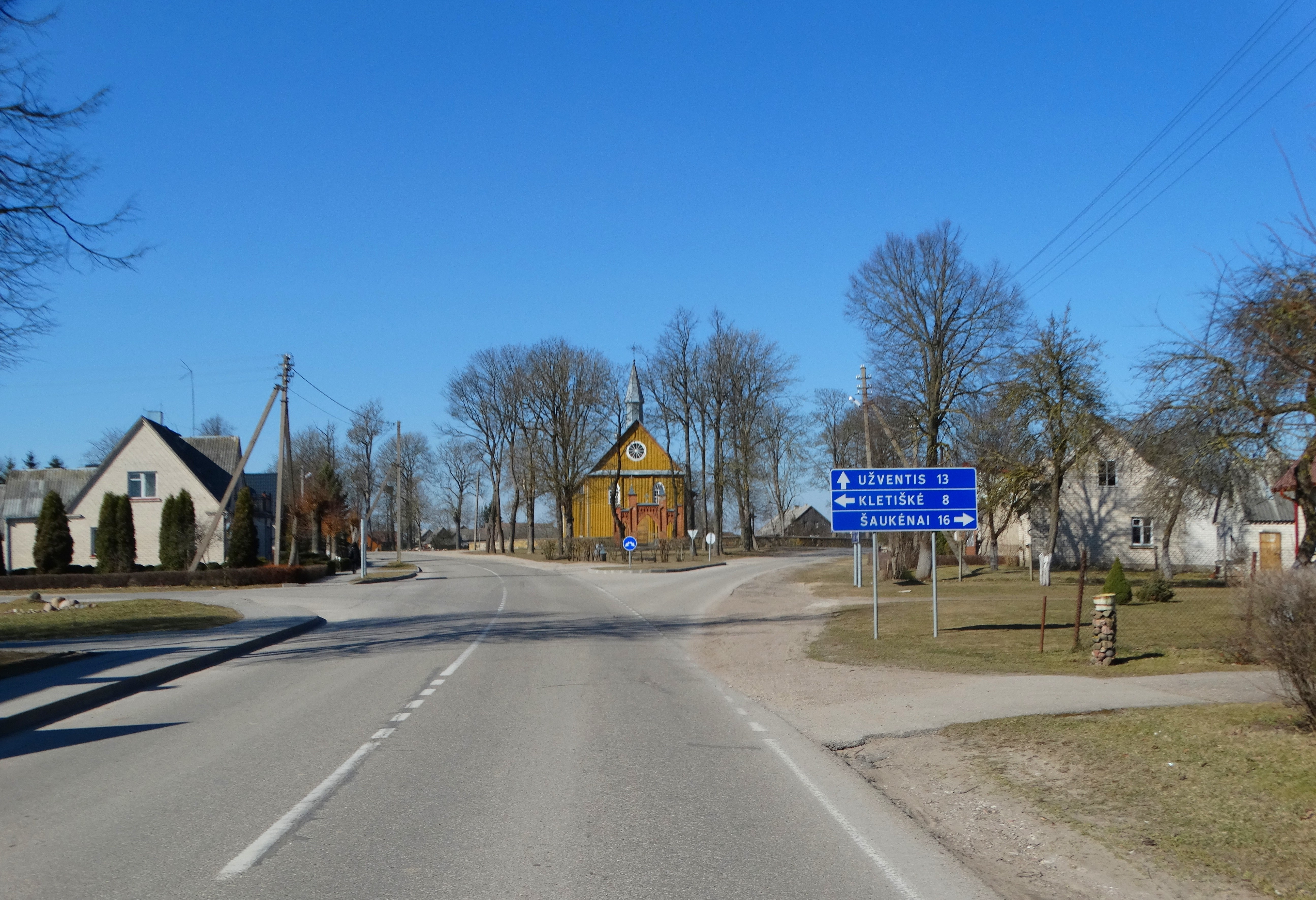 Vaiguva, Kelmė district, Lithuania